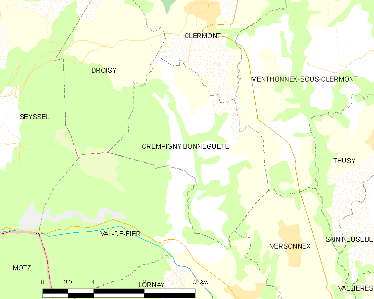 Map of French municipality Crempigny-Bonneguête